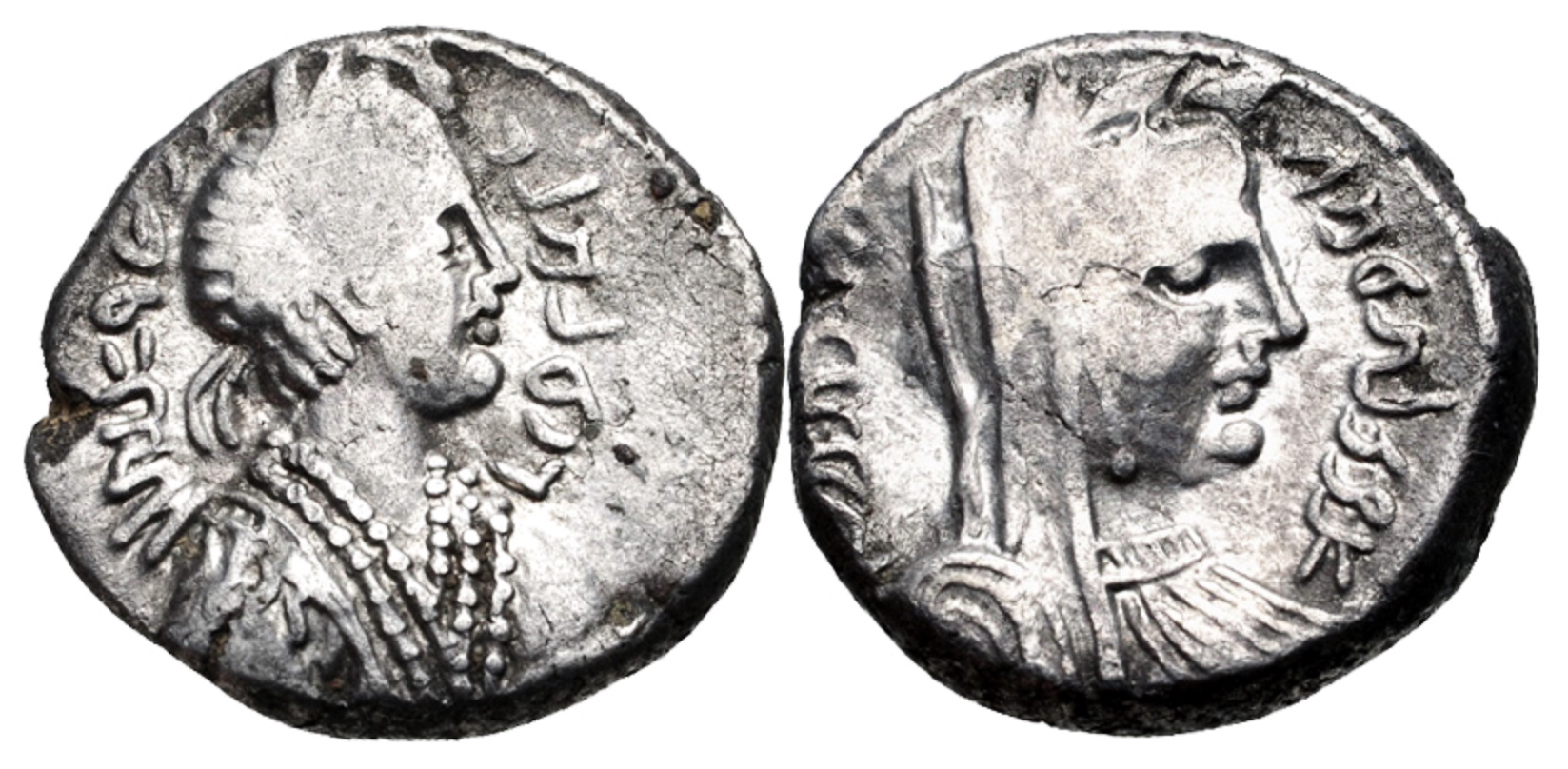 Silver drachm of Malichos II with his wife Shaqilat from 41 AD (15.5 mm, 3.79 g)